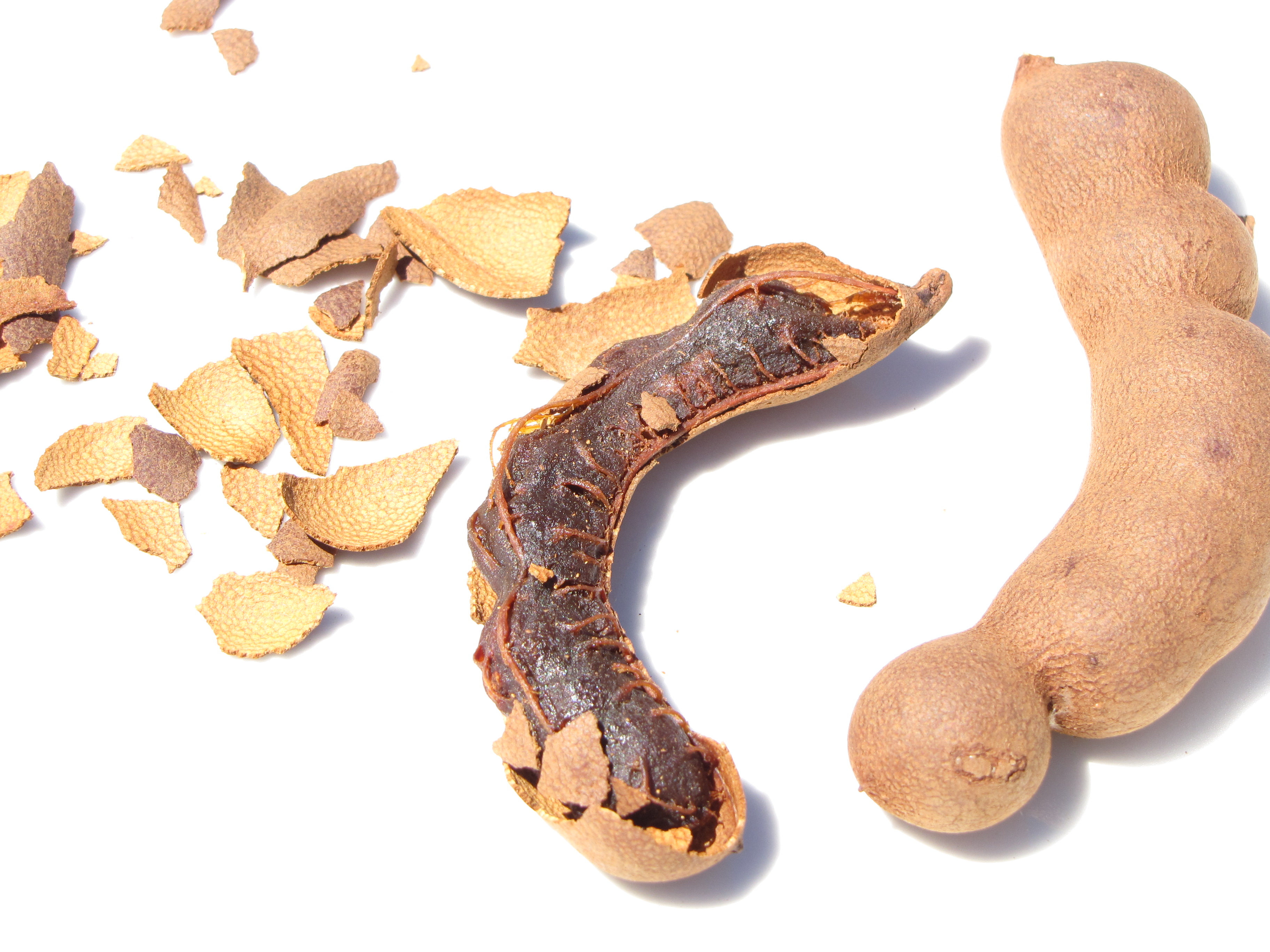 Tamarindus indica (Tamarind) Seedpods at Hawea Pl Olinda, Maui, Hawaii. June 27, 2012 #120627-7637 Image Use Policy